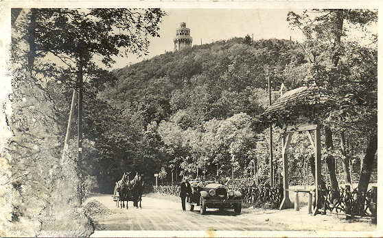 Janos Hill in 1920